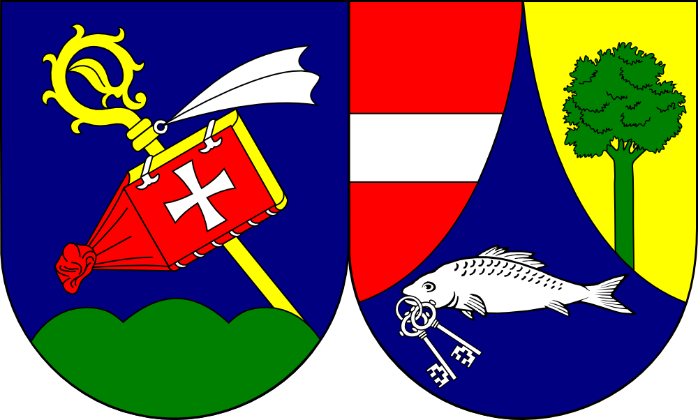 Coat of arms (shield only) of Benno Pointner, abbot of Schottenstift (Scottish Abbey), Vienna (1765 - 1807). Based on "Die Wappen der wiener Schottenäbte", p. 25.